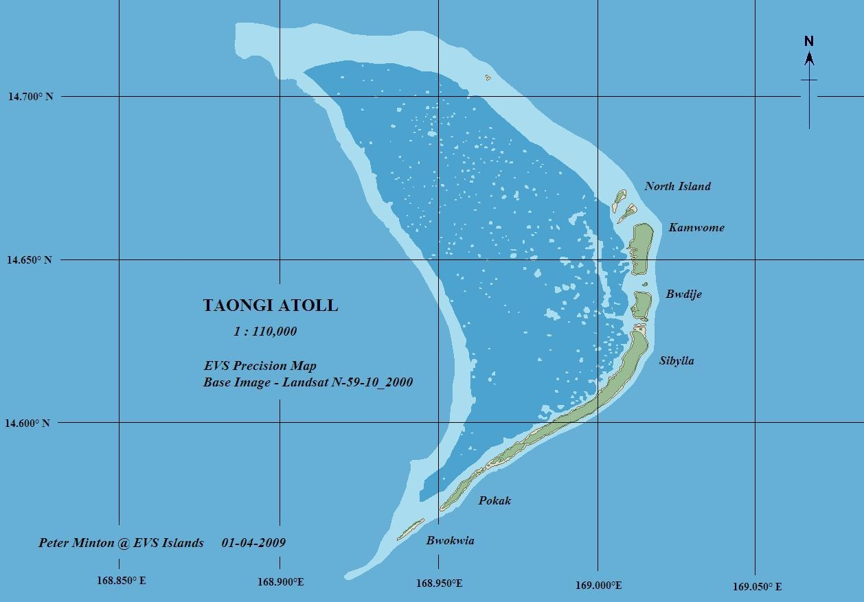 Taongi (Bokak) Atoll EVS precision map, color coded for vegetation, bare land, reef shallows, lagoon, and open ocean.